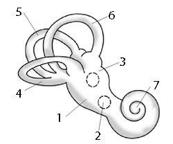 Diagram of bony labyrinth in the inner ear with labels removed to make clickable maps